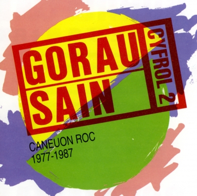 Artwork for the Album Gorau Sain Cyfrol 2 by Various Artists